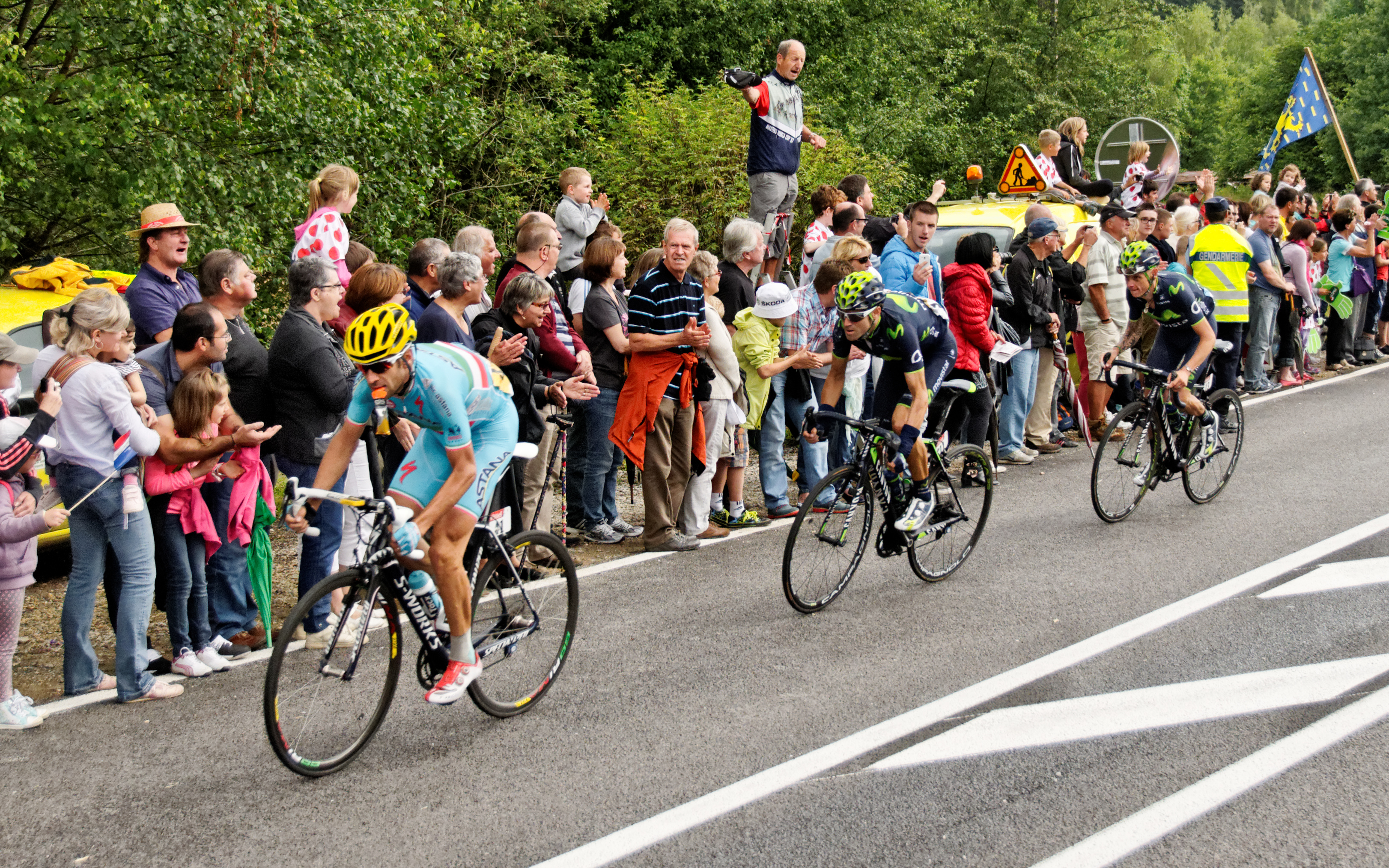 Personality rights warningAlthough this work is freely licensed or in the public domain, the person(s) shown may have rights that legally restrict certain re-uses unless those depicted consent to such uses. In these cases, a model release or other evidence of consent could protect you from infringement claims.